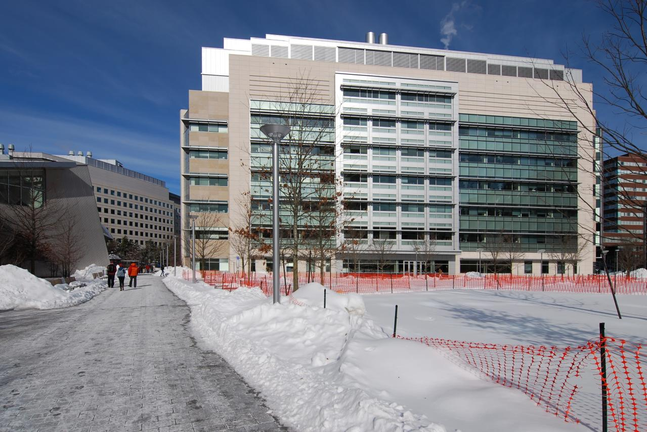 David H. Koch Institute for Integrative Cancer Research (completed in 2010), January 2011 photo. Located in Cambridge, Massachusetts.